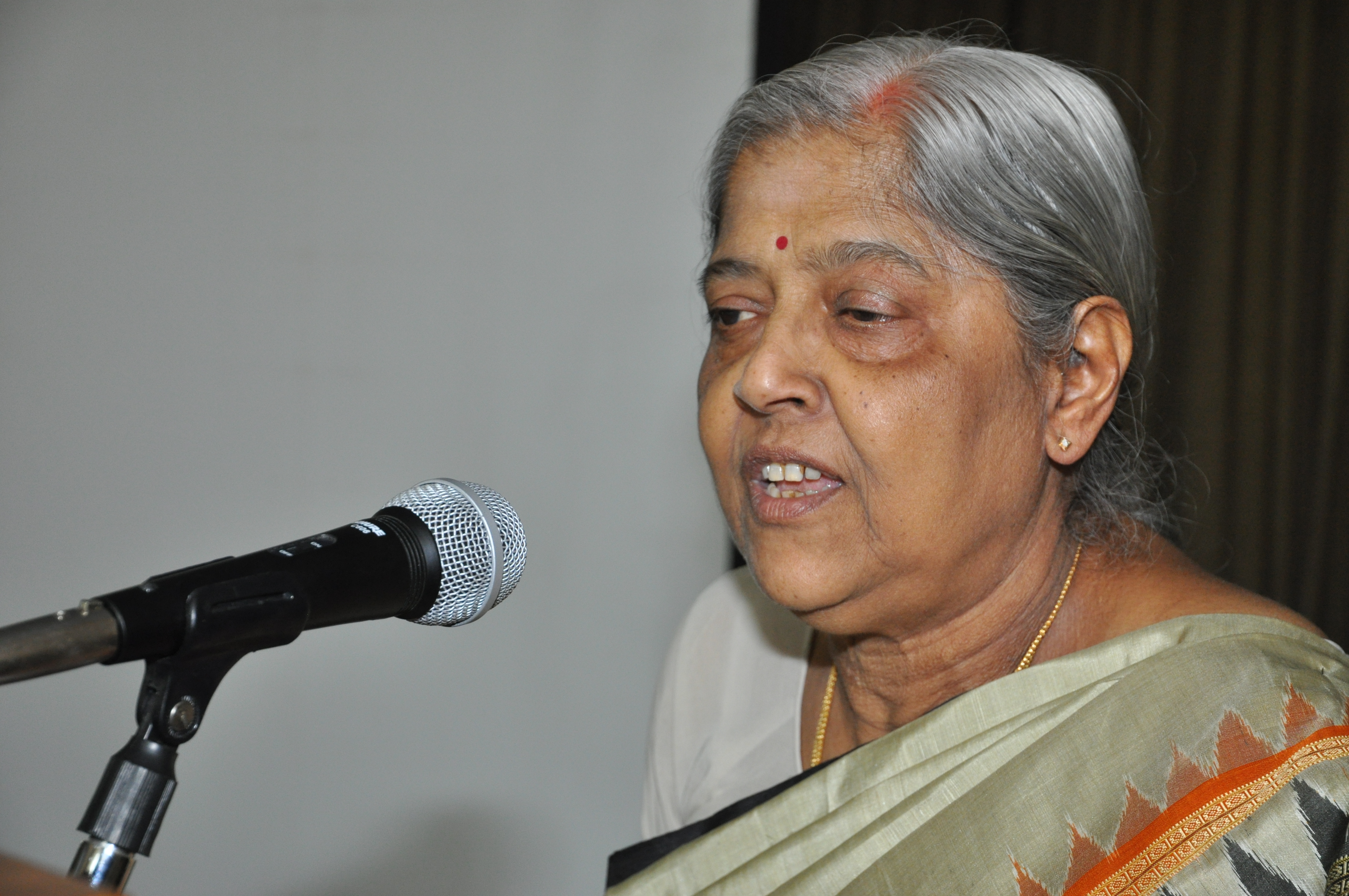 Parul Chakrabarti is member, board οf trustees of the Acharya Bhavan, Kolkata.